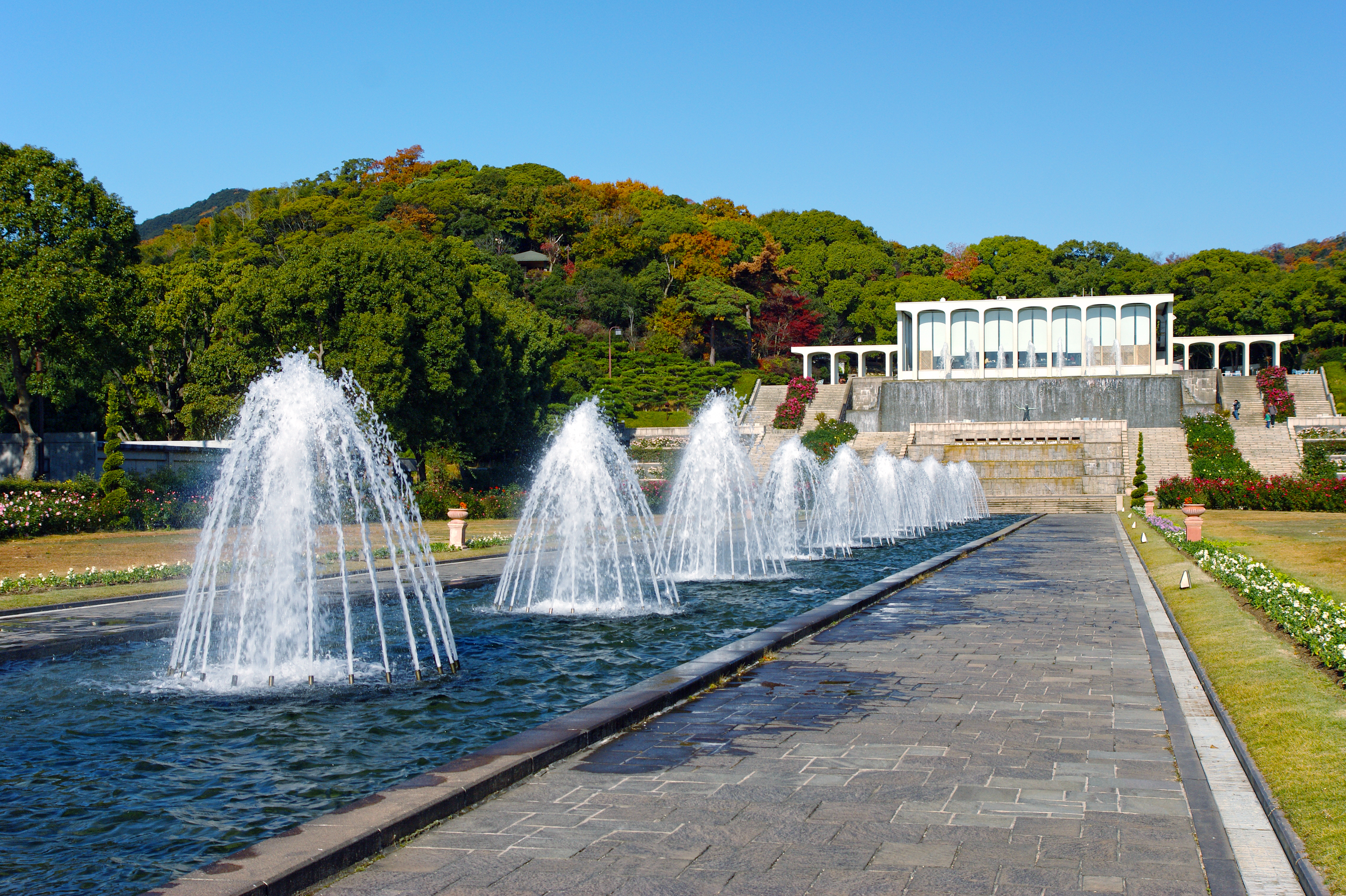 Suma Rikyu Park, Kobe, Hyogo prefecture, Japan